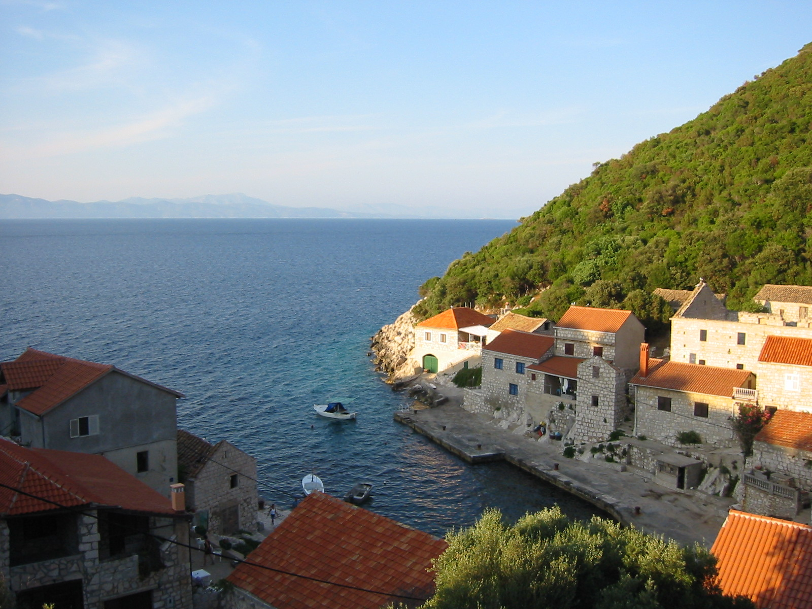 Lučica, island of Lastovo, Croatia